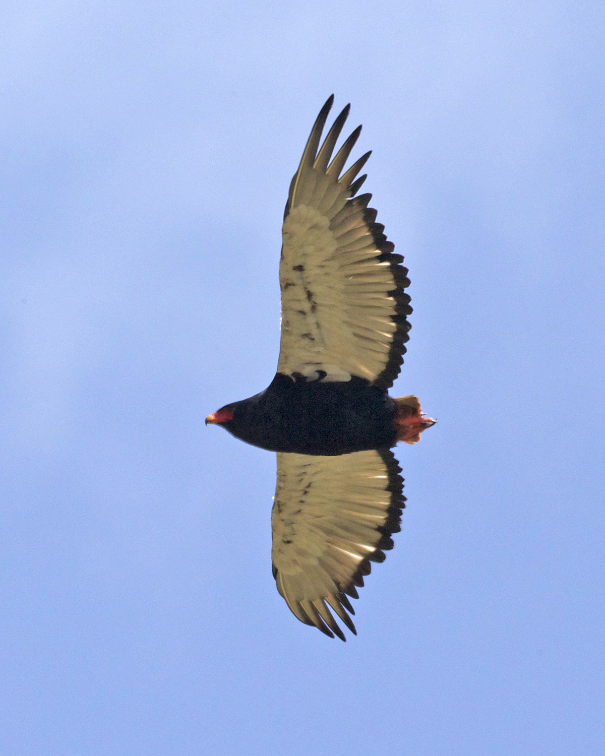 Bateleur Terathopius ecaudatus 8th. September 2102 North Serengeti, Tanzania CF2P5308